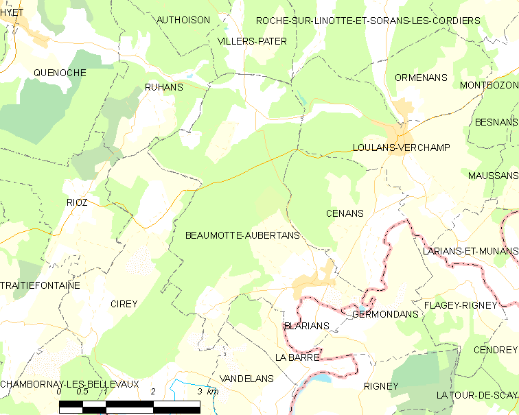 Map of French municipality